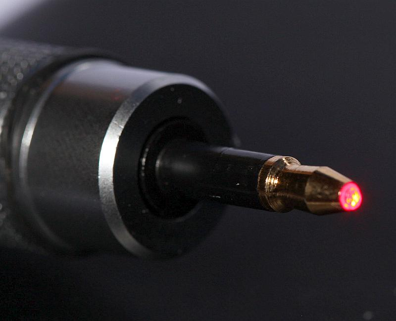 TOSLINK Plug in 3,5mm Format.